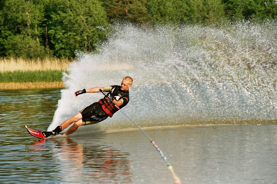 Johan Franzén, LVASK Sweden